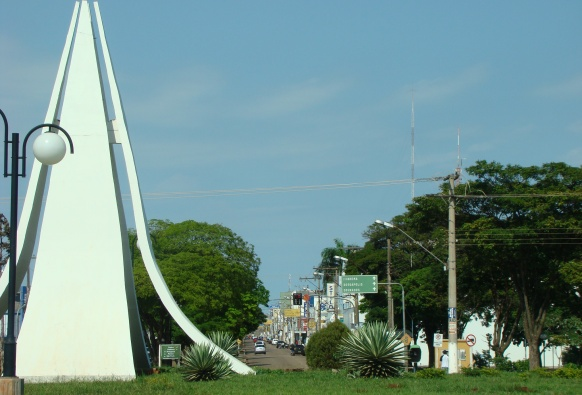 Central Monument